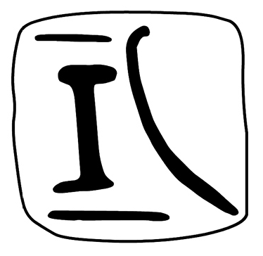 Drawing of parietal plication of Gudeodiscus messageri raheemi. Locality: 11L06, Laos, Luang Prabang Province, ca. 18 km SE of Muang Xiang Ngeun, on the left side of Nam Khan, limestone, black soil in limestone pockets, clay, under rocks and logs in old forest, 455 m a.s.l., 19°40.931'N, 102°19.743'E, leg. A. Abdou & I.V. Muratov, 30.10.2006, MNHN 2012-27054/38 shells (some of them are broken/juvenile) + anatomically examined specimen.